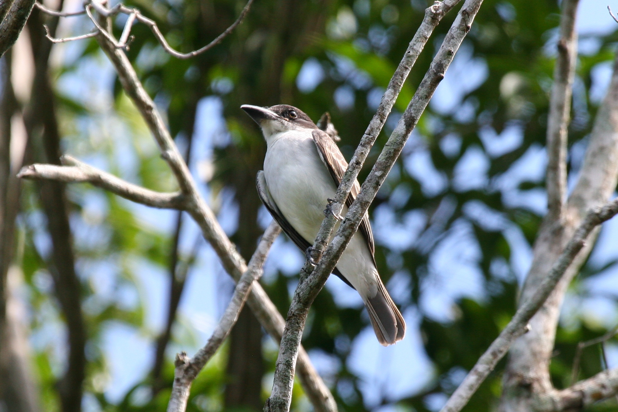 Giant Kingbird (Tyrannus cubensis) Dysmorodrepanis 22:47, 30 May 2008 (UTC)